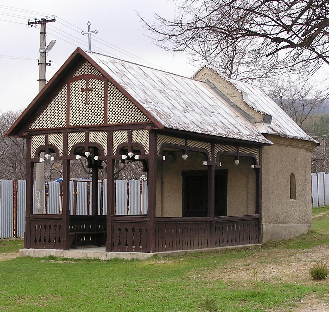 The Rosary Virgin Mary Chapel in Poproč, Slovakia